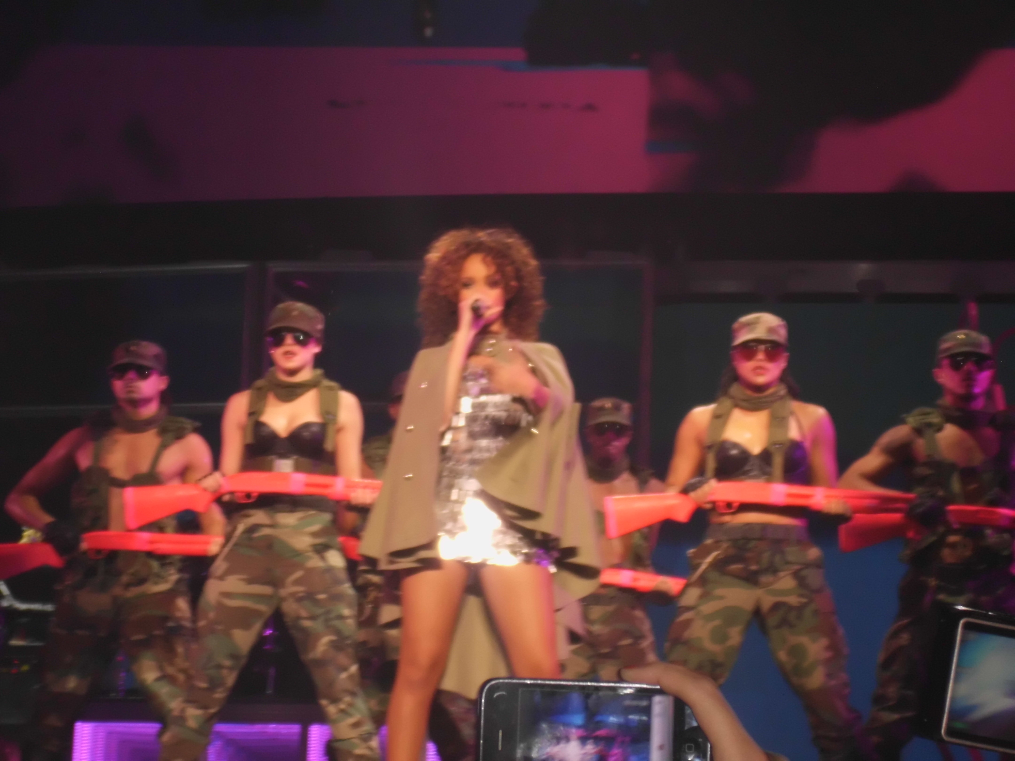 Rihanna sings "Hard" in Hannover, Germany on November 4, 2011.